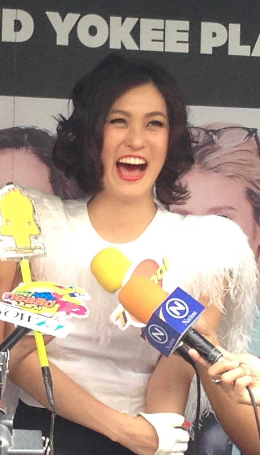 Bo of Triumphs Kingdom.